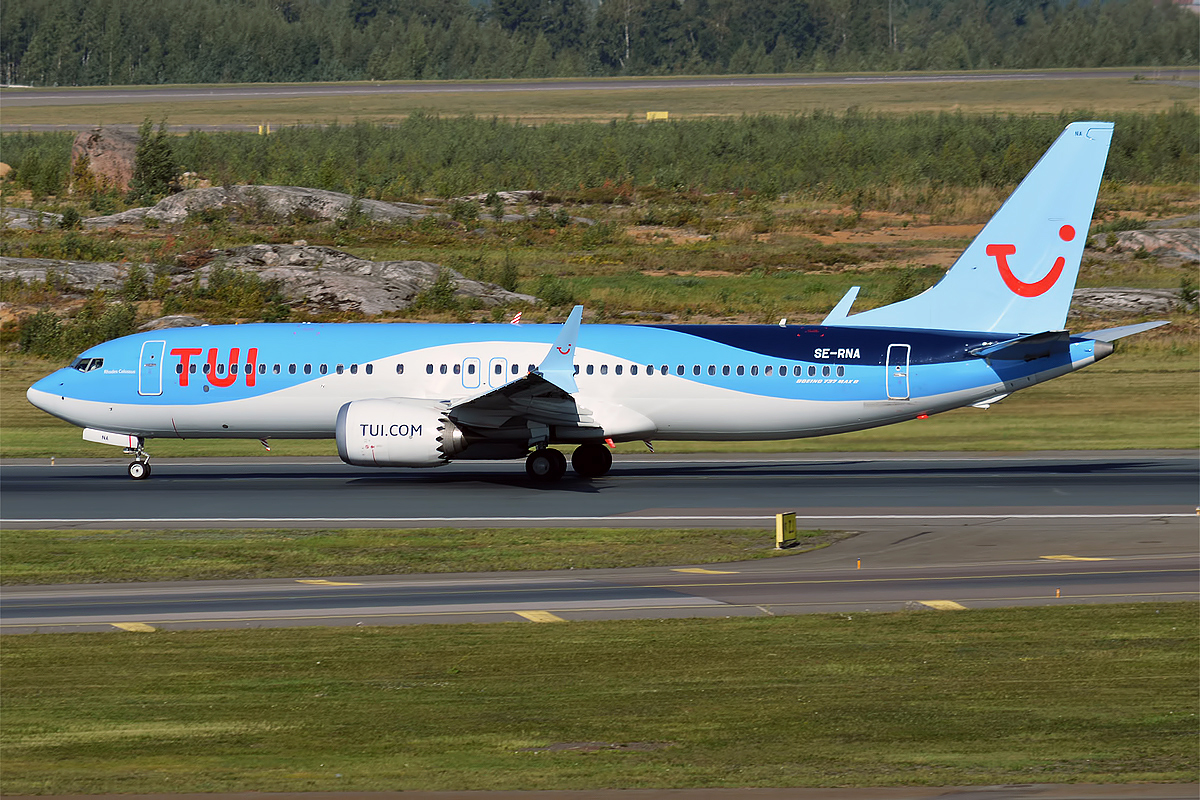 TUIfly Nordic, SE-RNA, Boeing 737-8 MAX